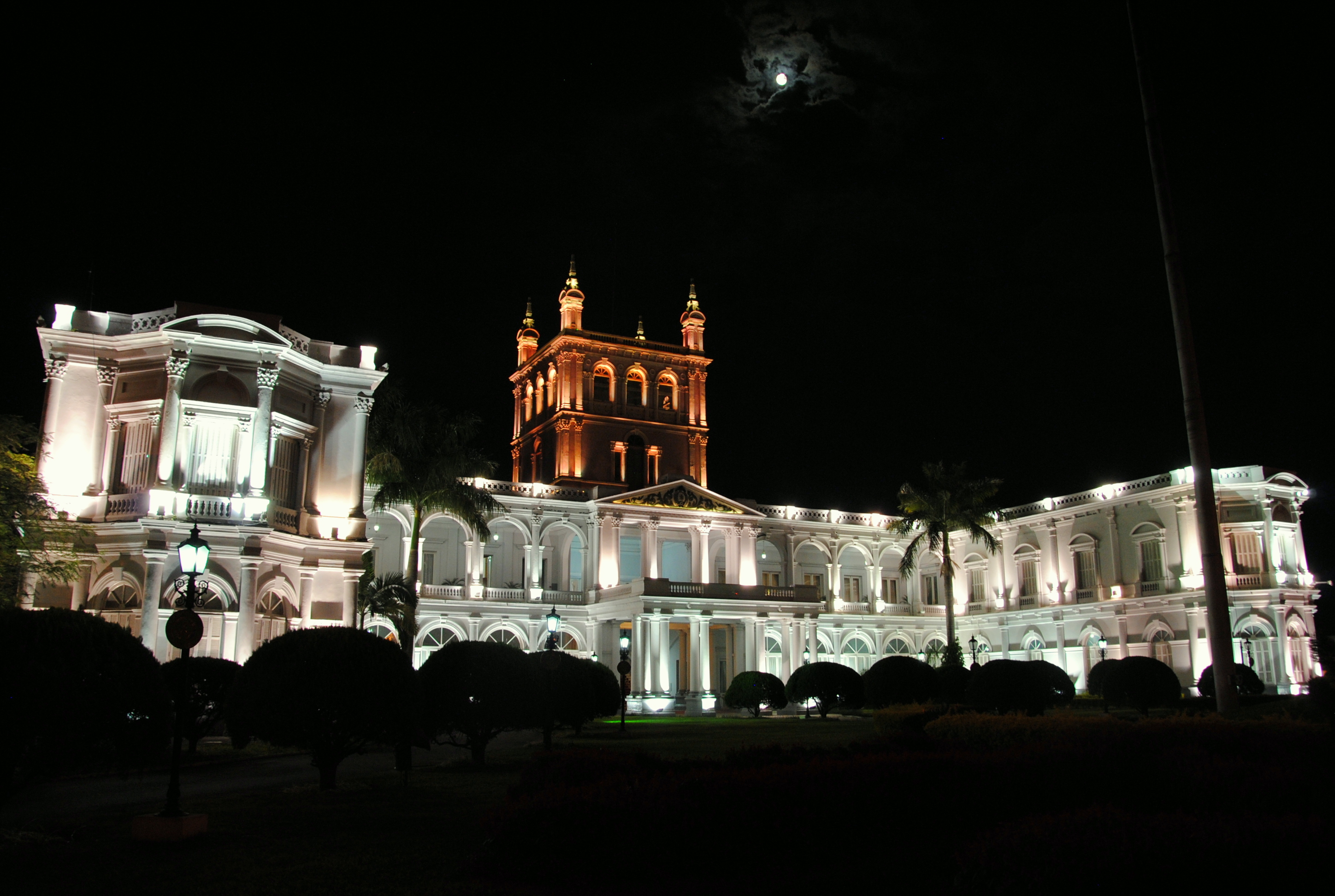 Government Palace. Paraguay